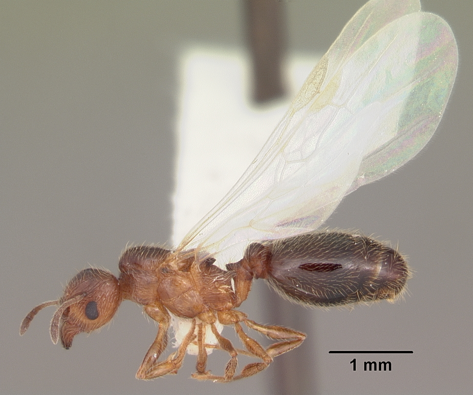 Profile view of ant Pheidole adrianoi specimen casent0104271.